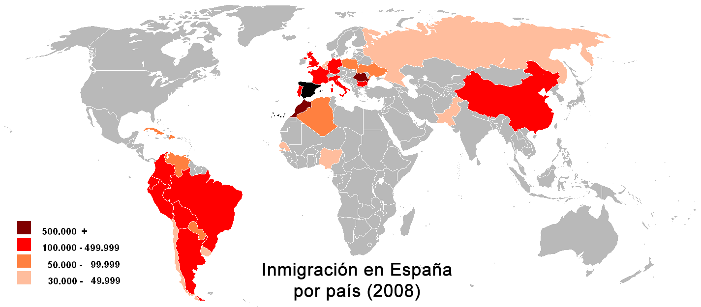 Immigration to Spain by country.